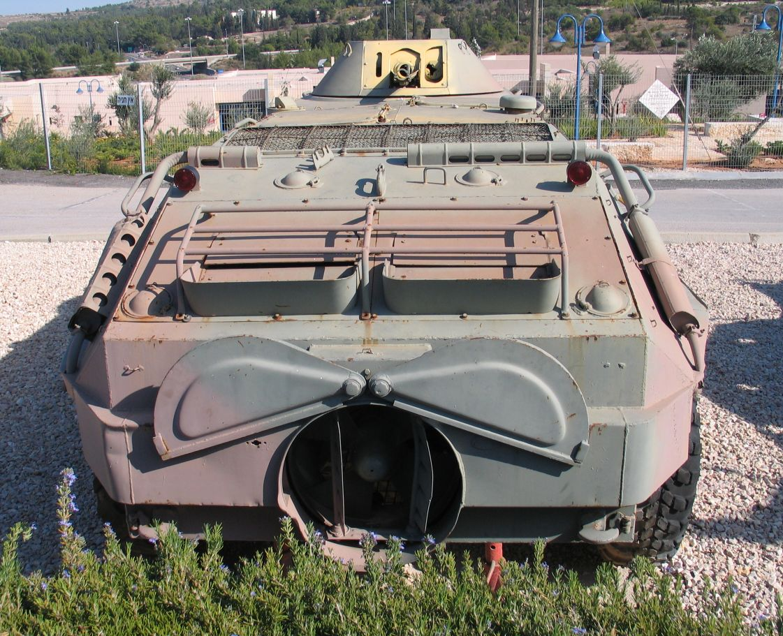 Description: Soviet BTR-60 APC in Yad la-Shiryon Museum, Israel. 2005. Source: Photo by me, User:Bukvoed.